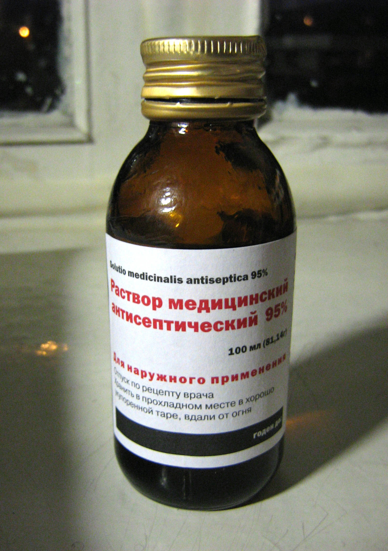 A bottle of ethanol (95%) - an antiseptic